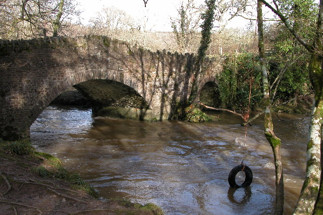 Leigh Bridge, near Cheldon. A narrow country lane crosses the Little Dart River via Leigh Bridge